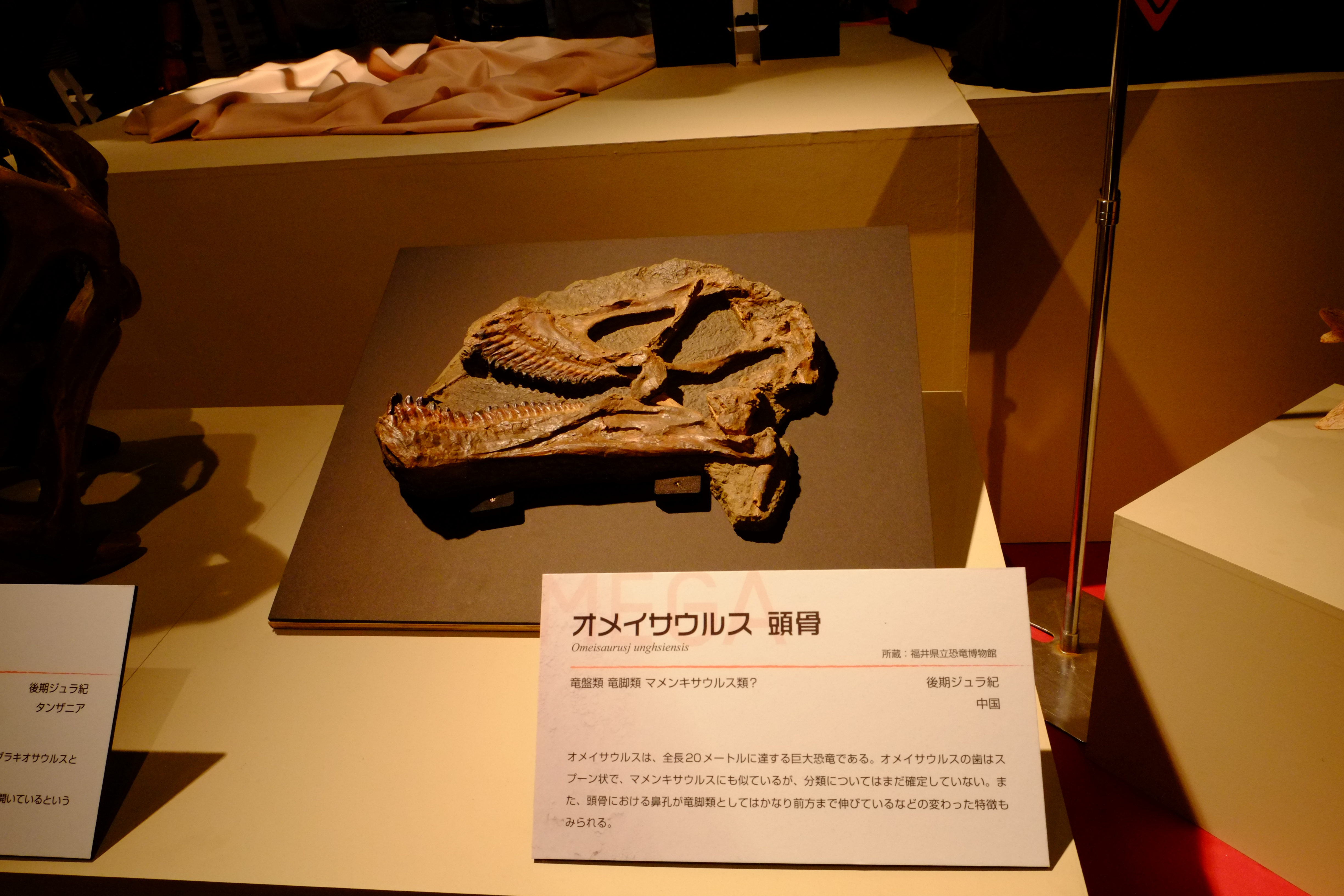 マメンキサウルス類？ まだ未確定。